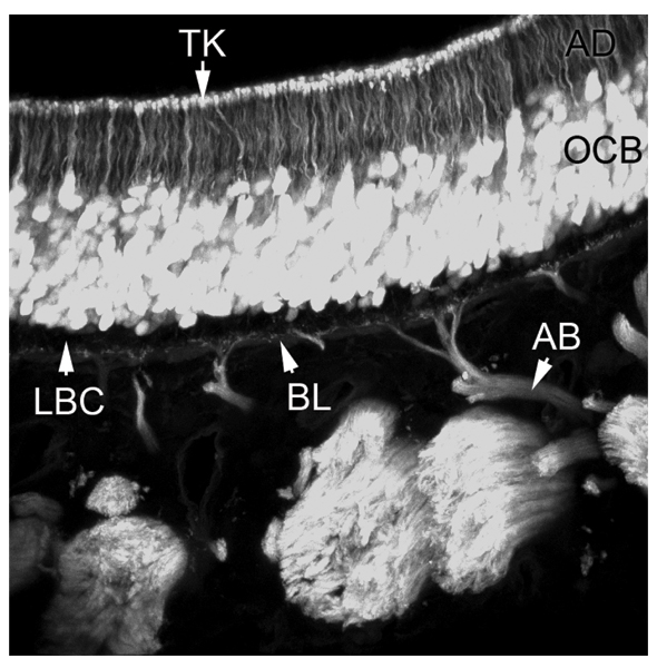 Figure legend provided in original article (CC-by): "This image shows a vertical projection of a stack of confocal images taken from a transgenic mouse, in which green fluorescent protein (GFP) is expressed in all ciliated olfactory sensory neurons. GFP brightly labels the olfactory neuronal cell bodies (OCB), their apical dendrites (AD), and terminal knobs (TK). Staining does not extend into the sensory cilia, which remain invisible in this preparation. Basally to the olfactory neuronal cell bodies is the unstained layer of basal stem cells (LBC), from which degenerating neurons are constantly regenerated. The olfactory axons grow in bundles (AB) through the basal lamina (BL), and then fasciculate to form the tracts of the olfactory nerve, which projects into the brain. (Rebecca Elsaesser and Jacques Paysan, unpublished)."